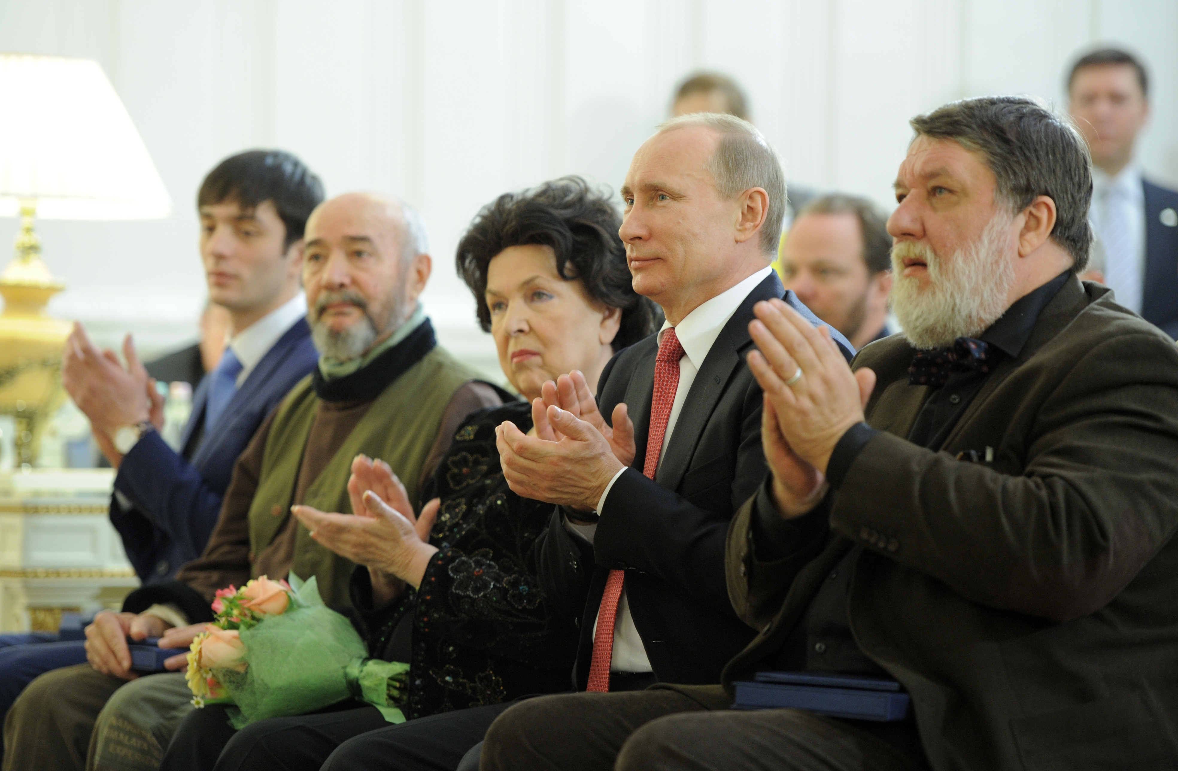 From left to right: Folk dancer Khadis Muzakayev, artist Shavkat Abdusalamov, artistic director of the Opera Center Galina Vishnevskaya, Russian Prime Minister Vladimir Putin, muralist Ivan Lubennikov during the awards ceremony of the 2011 Russian Government Prizes in Culture at the Reception House of the Government of the Russian Federation.